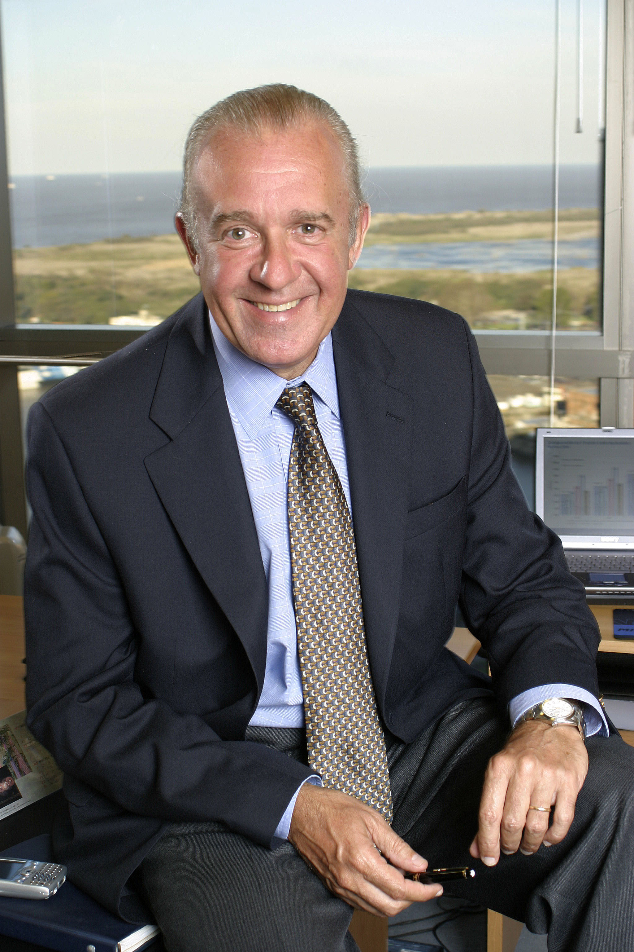 CEO Ternium